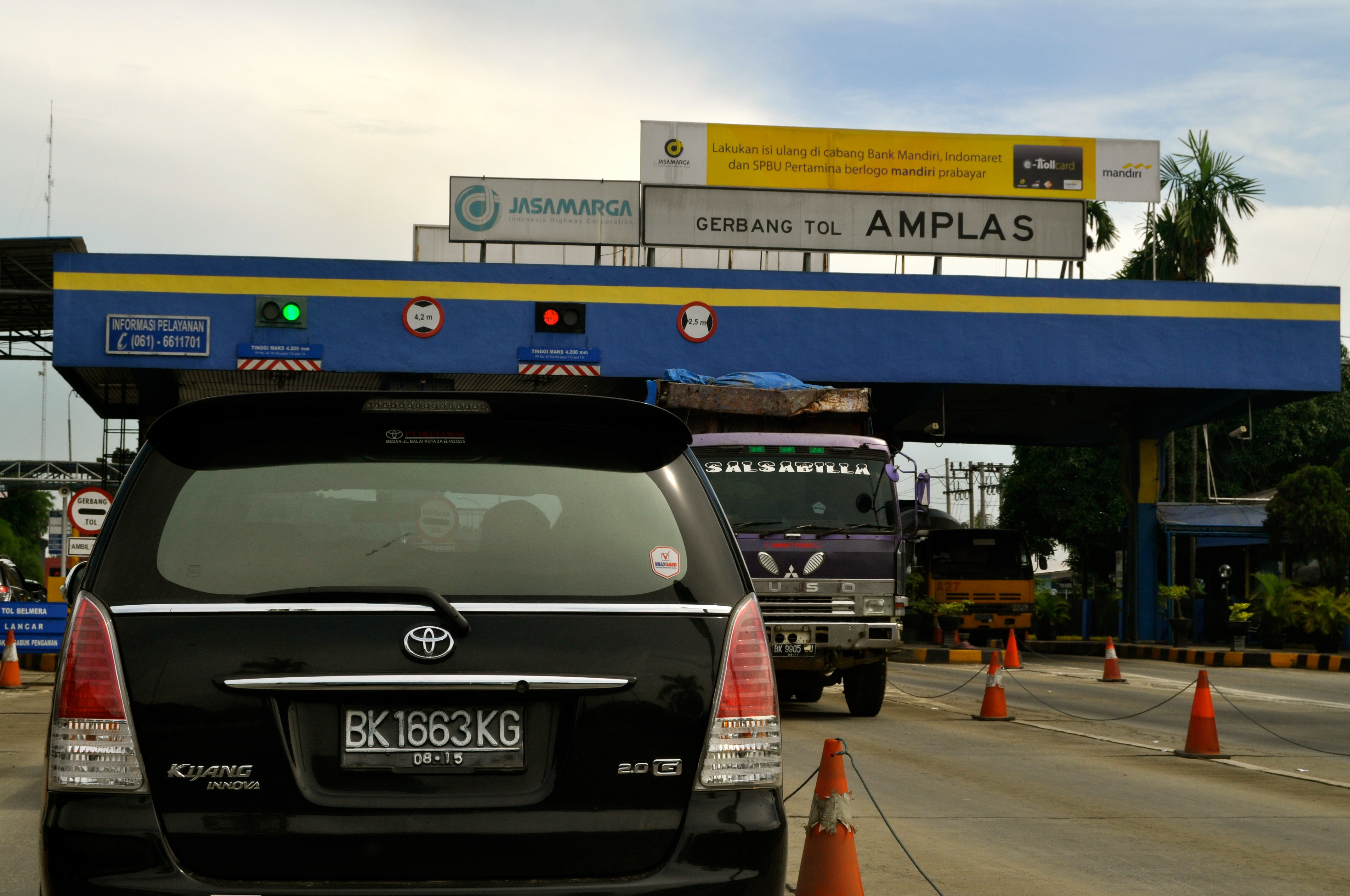 Amplas Toll Plaza in Belmera Toll Road, Medan Indonesia